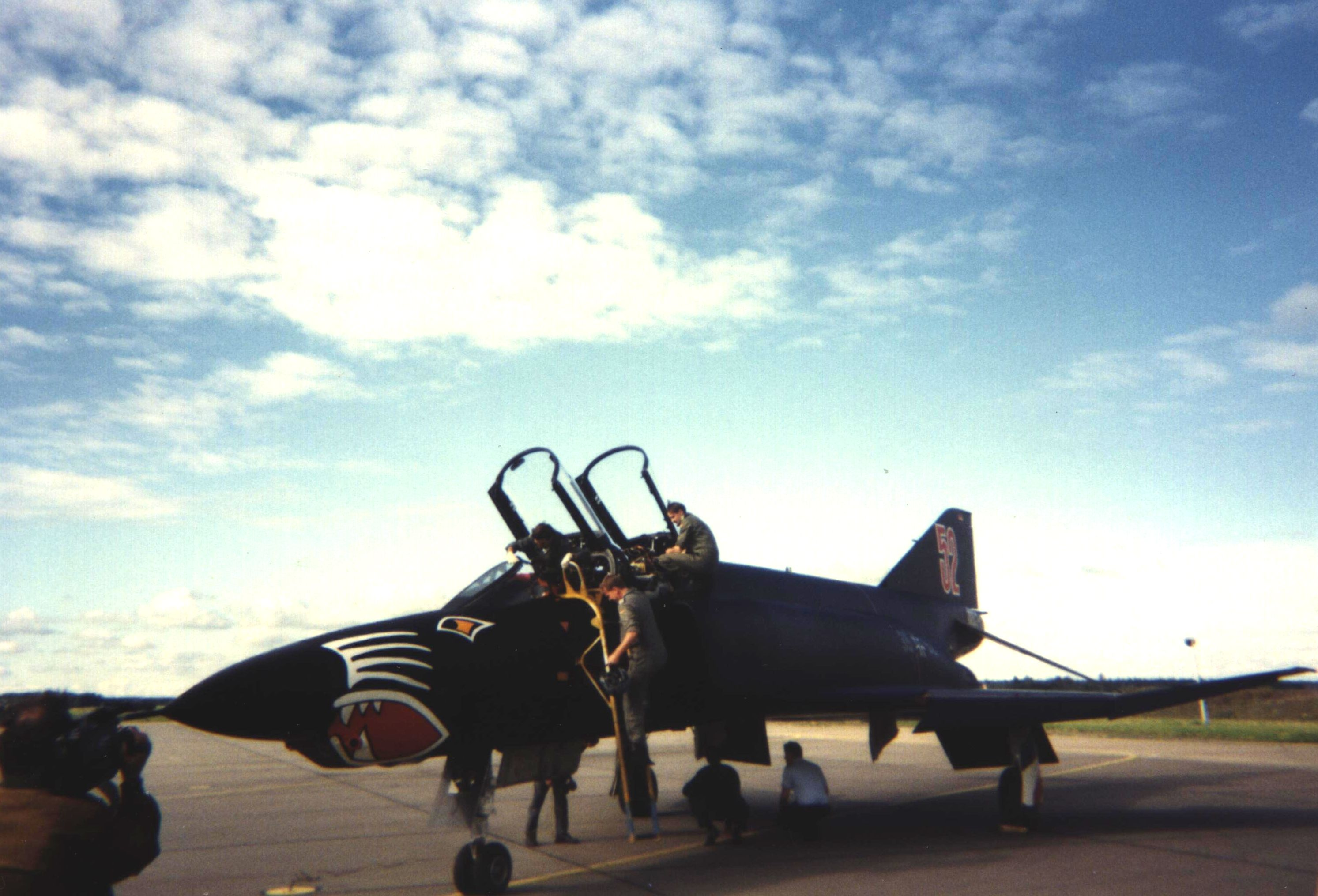 A German Luftwaffe McDonnell Douglas RF-4E Phantom II (s/n 35+52) from Aufklärungsgeschwader 52 (52nd Reconnaissance Wing) after having made the last landing before decommissioning of the wing at Leck air base.